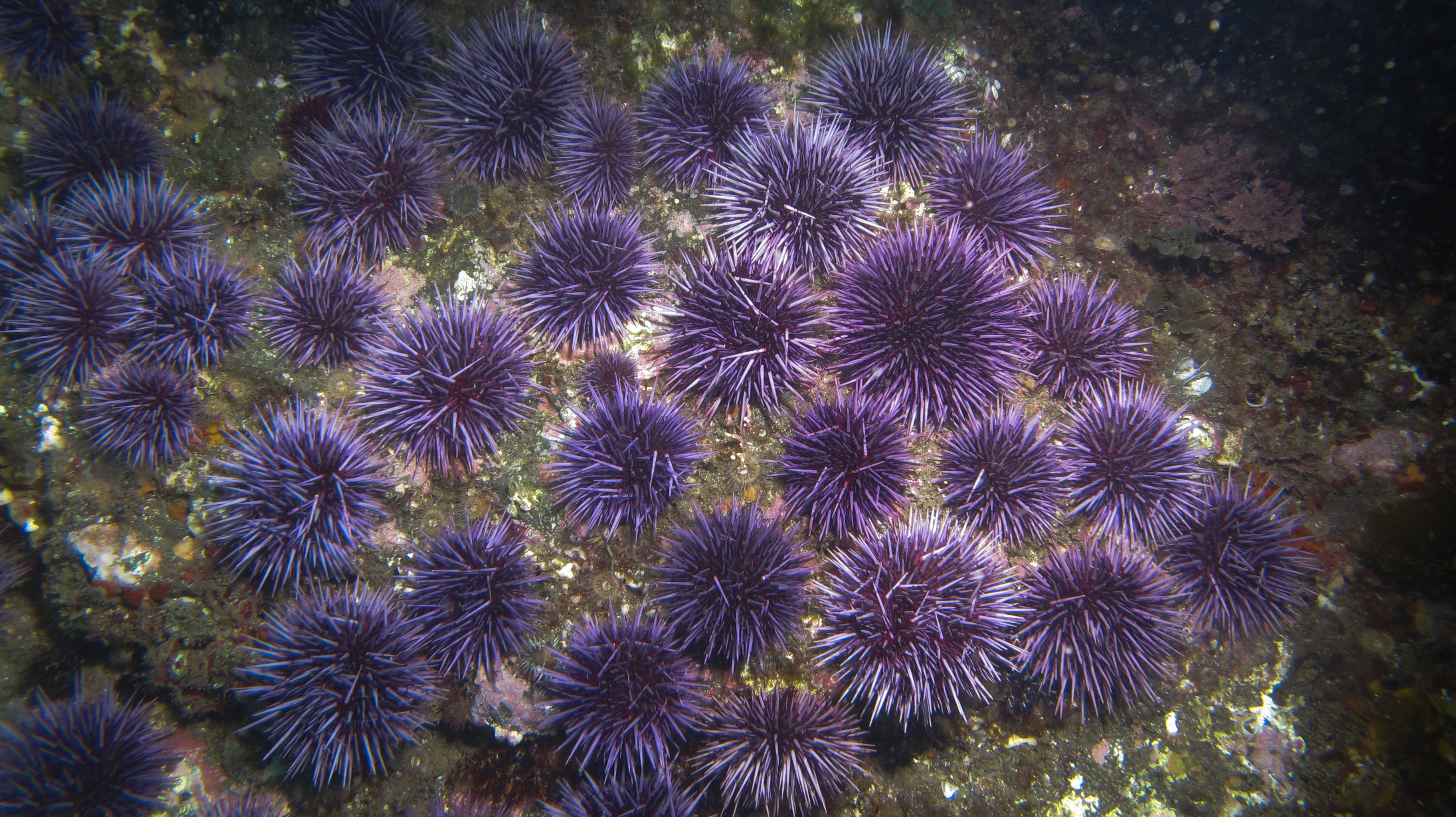 Strongylocentrotus purpuratus - Ventura, California, United States